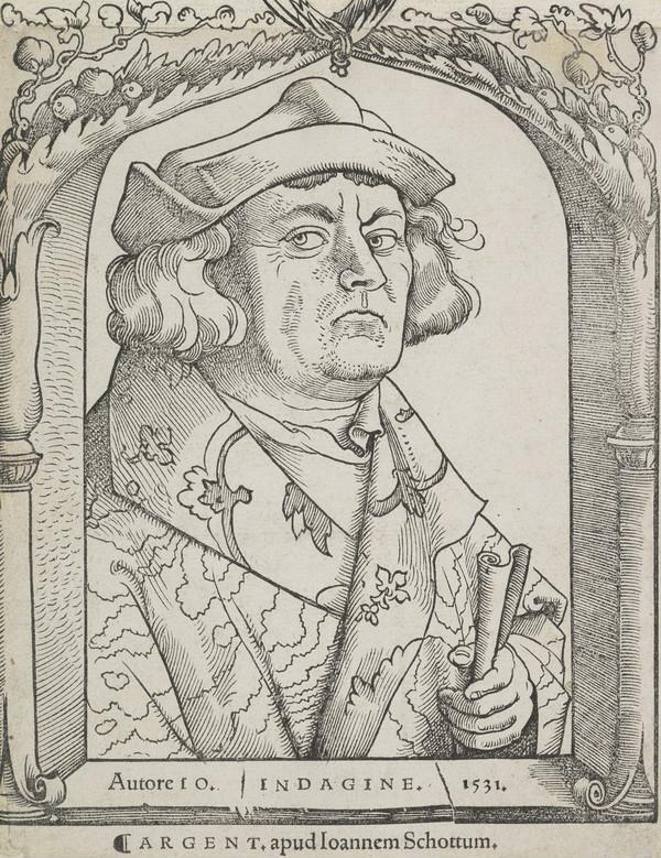 Johannes Indagine († 1537) by Hans Baldung (1484 / 1485 - 1545)